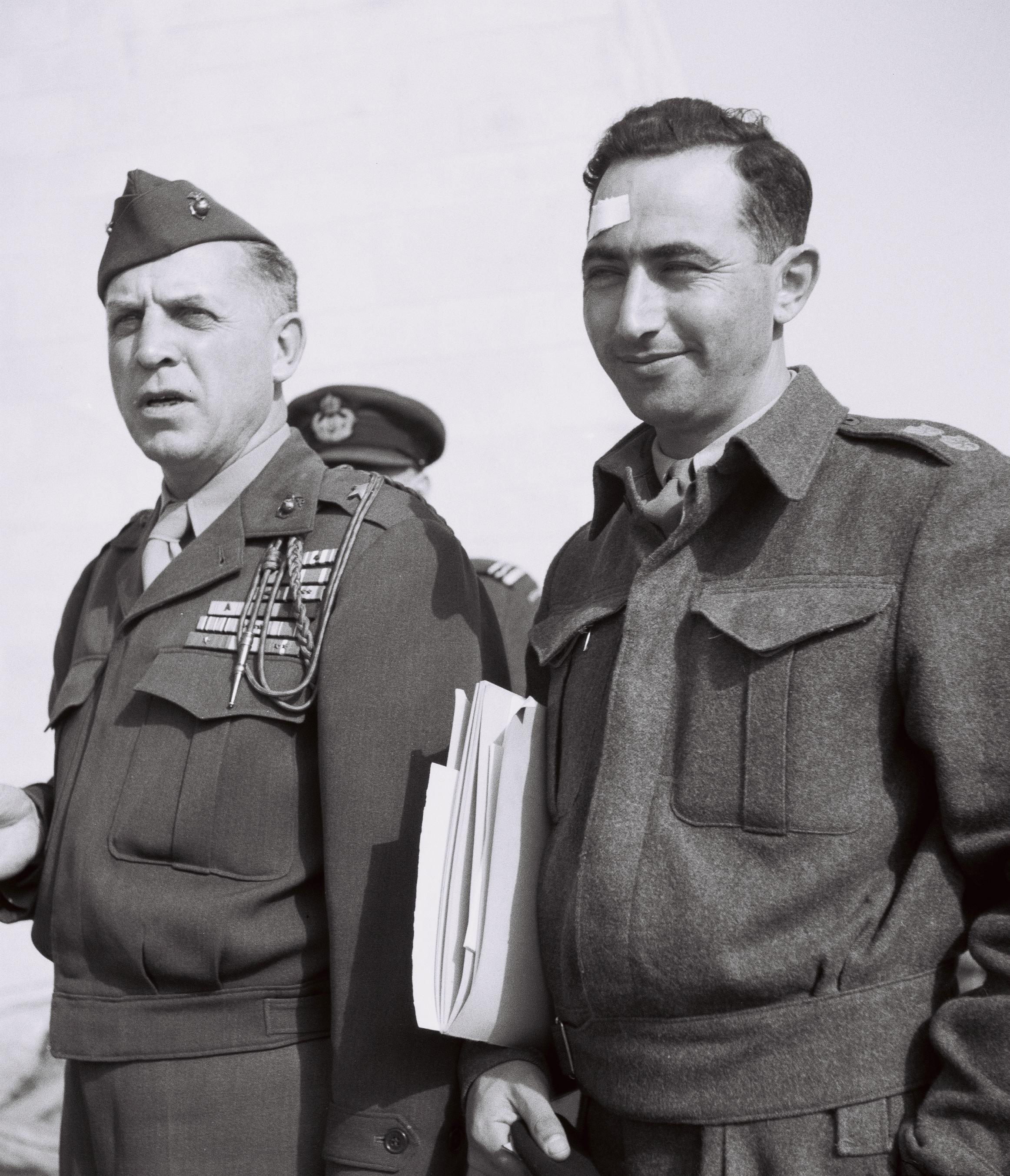 U.S.A. gen. Riley and lt. col. M. Makleff, Israeli army, at ras el Nakura.